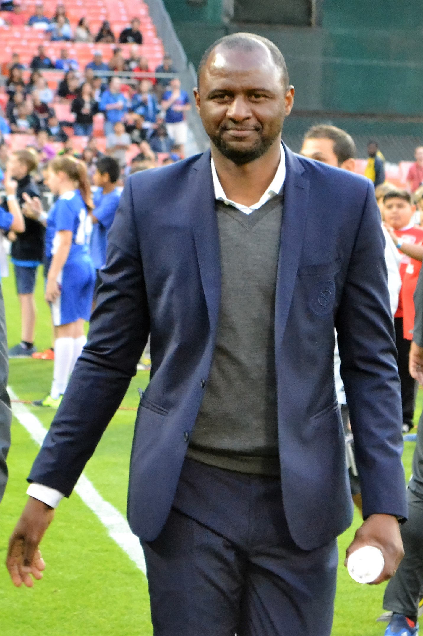 Patrick Vieira, NYCFC Coach, in 2016